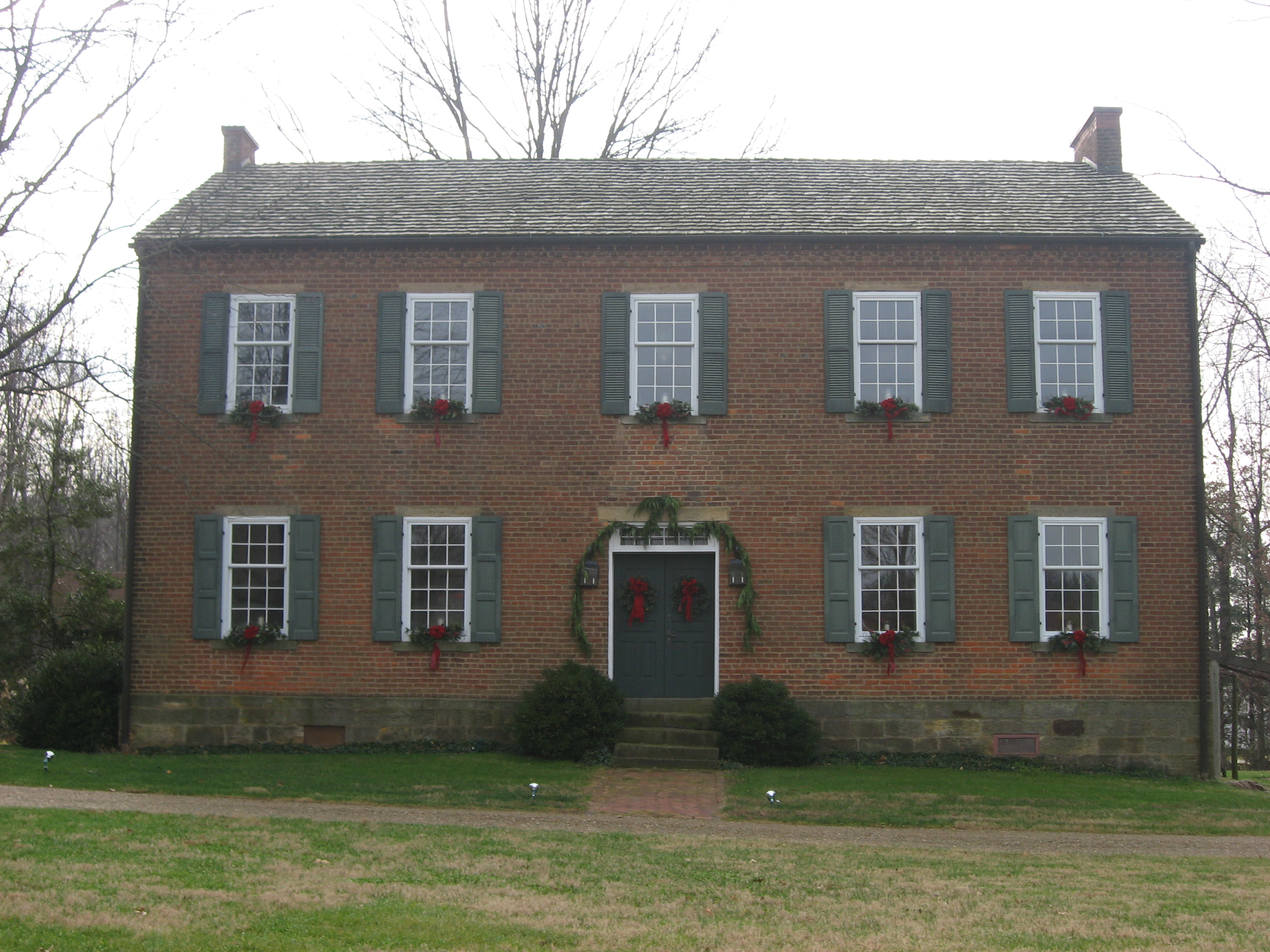 Front of the John Opel House, located at 1437 St. James Avenue on the southeastern edge of Jasper, Indiana, United States. Built in 1850, it is listed on the National Register of Historic Places.